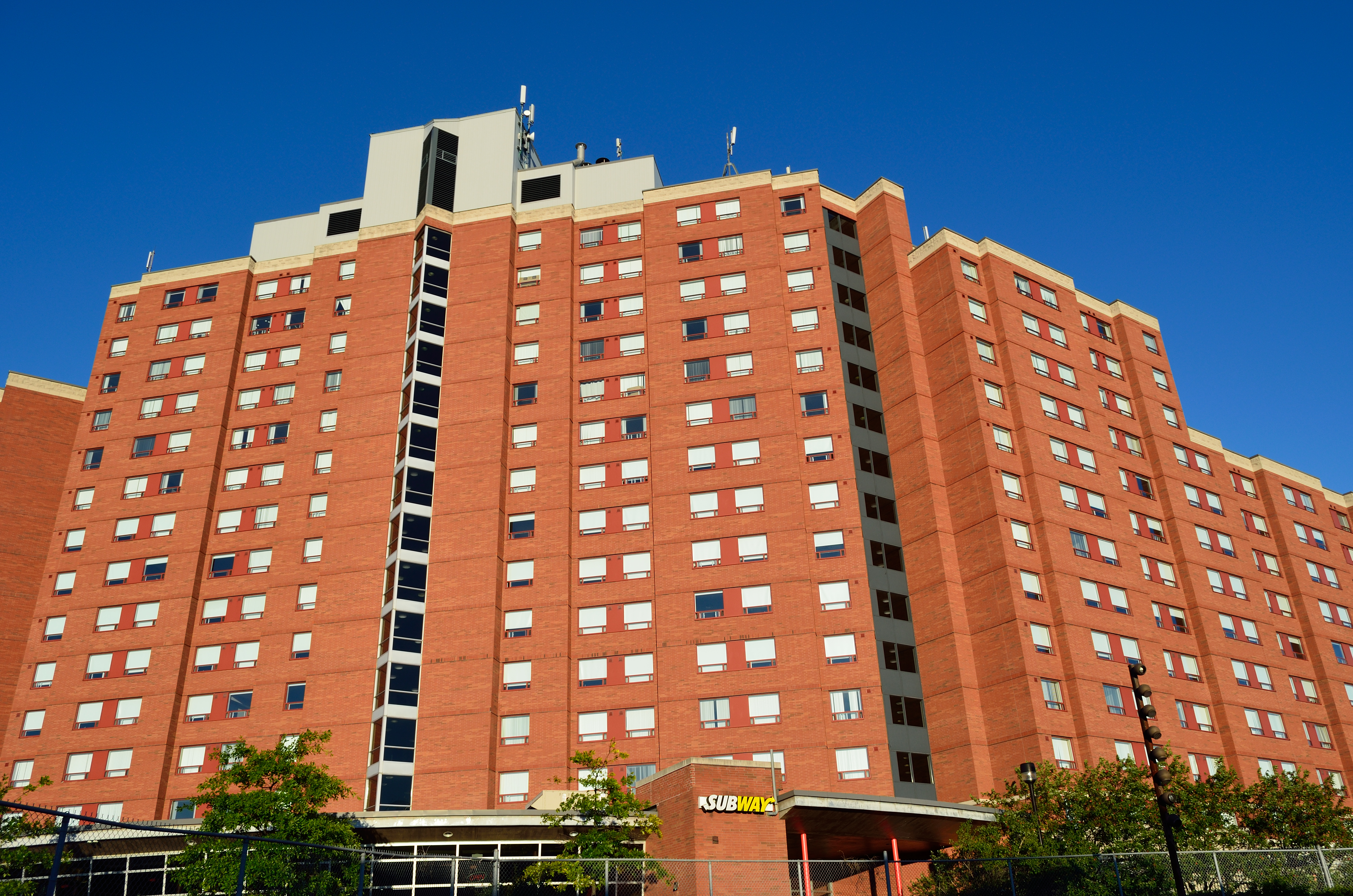 Seneca College Residence on Newnham Campus. Address: 1760 Finch Ave E, Toronto, ON M2J 5G3, Canada